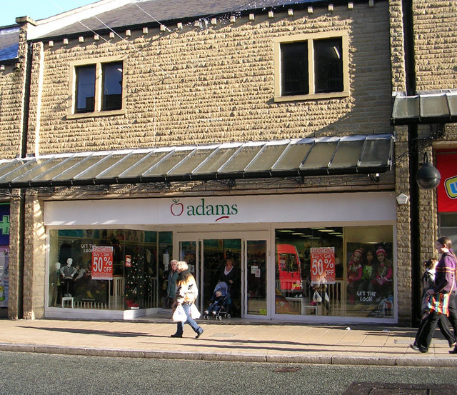 adams - Market Street